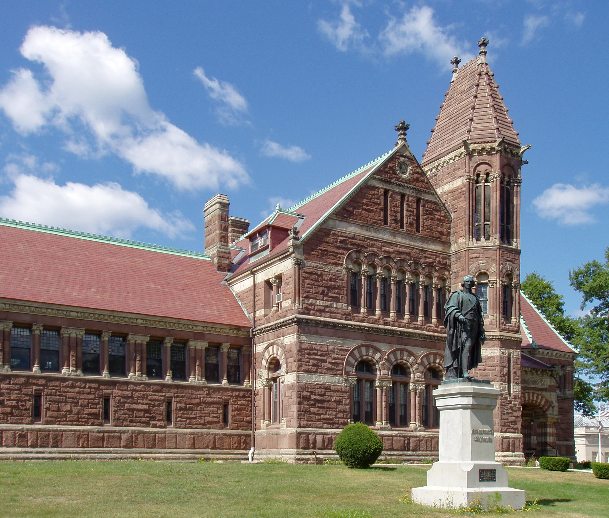 Library in Woburn, Massachusetts. The building was designed by noted architect H. H. Richardson. The statue is of native son Benjamin Thompson, Count Rumford; it is a copy of the original by Caspar Zumbusch in Munich, Germany. Photograph taken by me, September 2005.